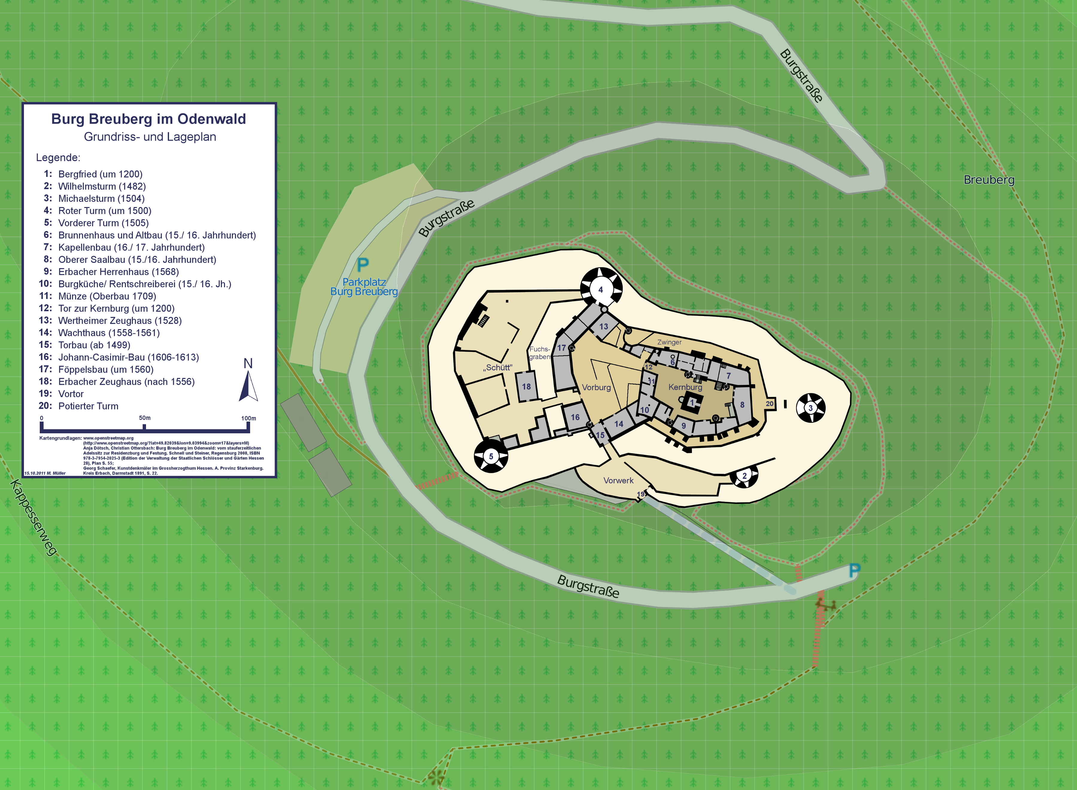 Map of Breuberg Castle, Odenwald, Germany.